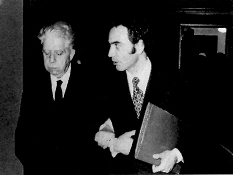 Riccardo Campa (right) with Nobel prize Eugenio Montale (1971)